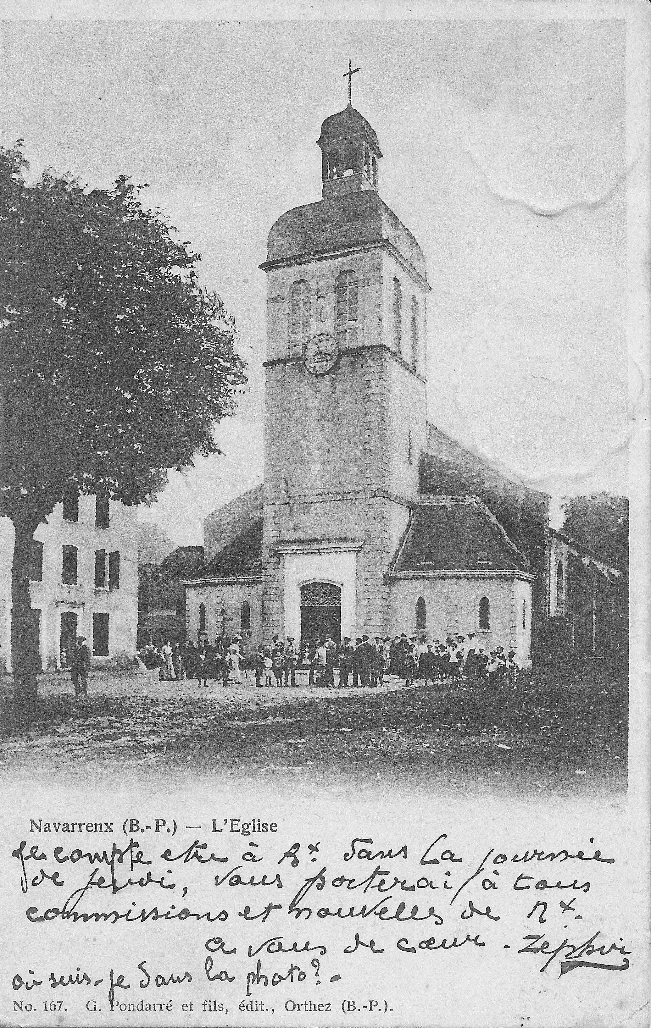 Navarrenx-Church Saint-Germain-d'Auxerre (Pyrénées-Atlantiques, France). Time stamp is at january 1903.